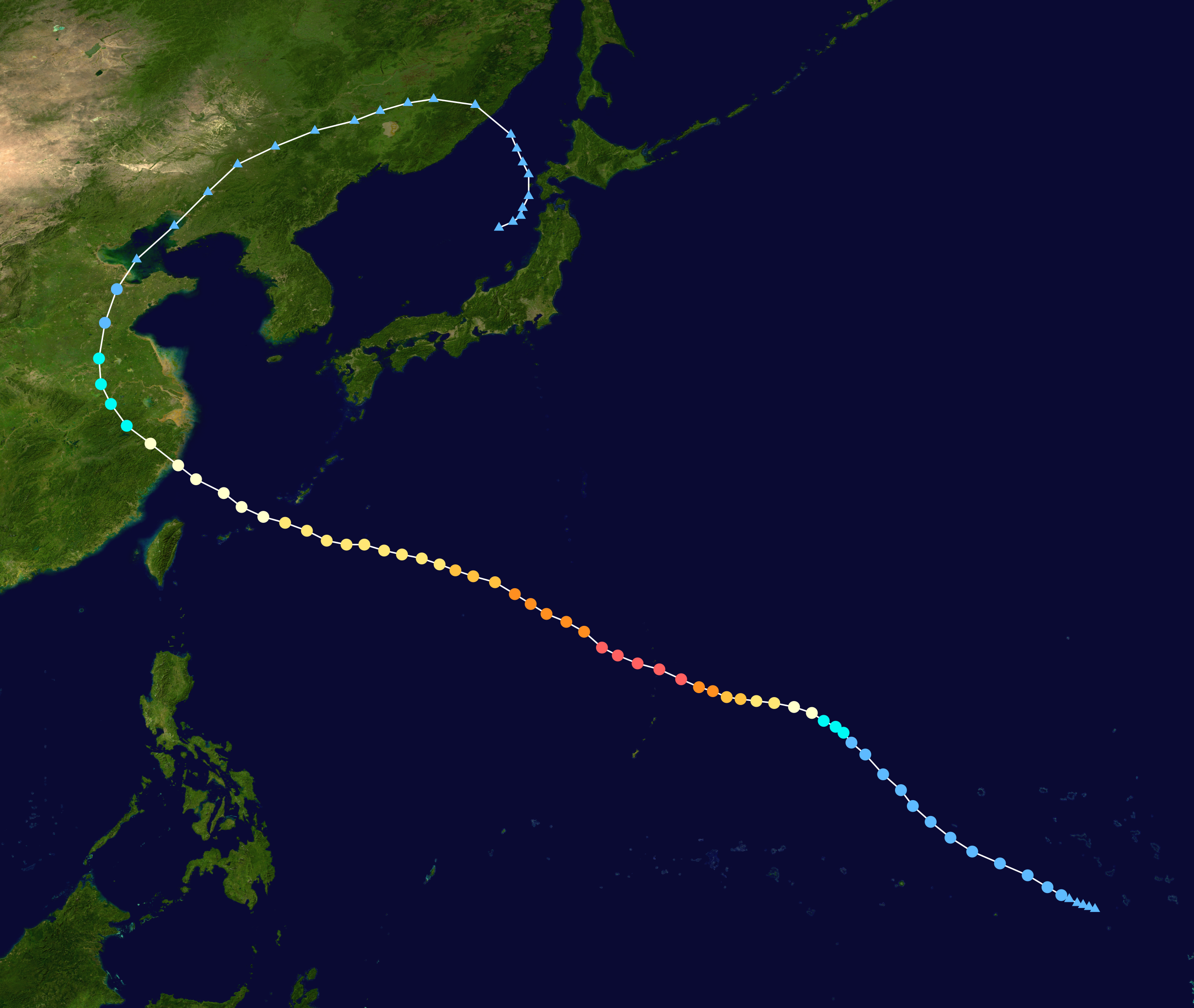 Typhoon Winnie 1997 track. Uses the color scheme from the Saffir-Simpson Hurricane Scale.